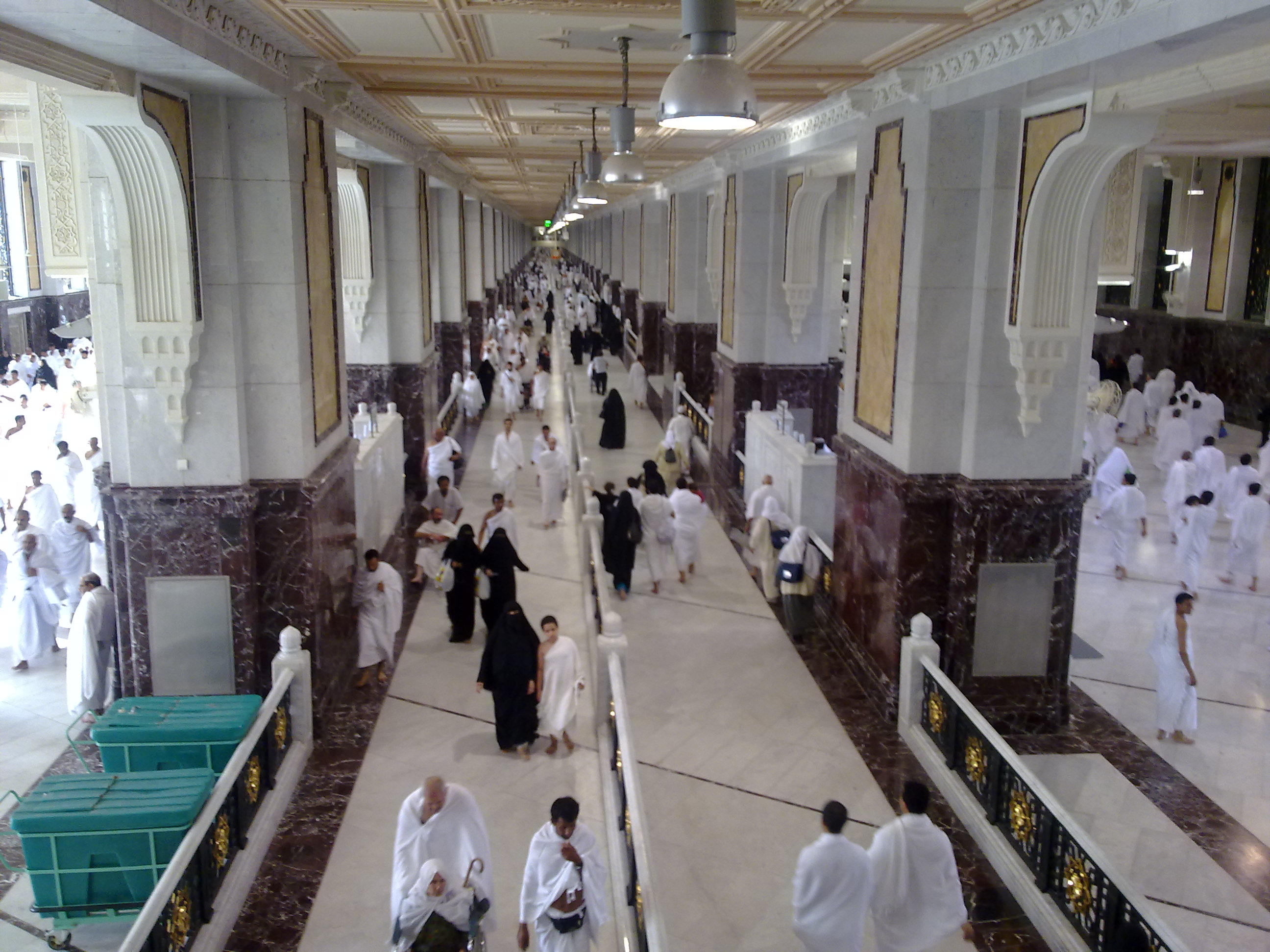 Sa'yee For older